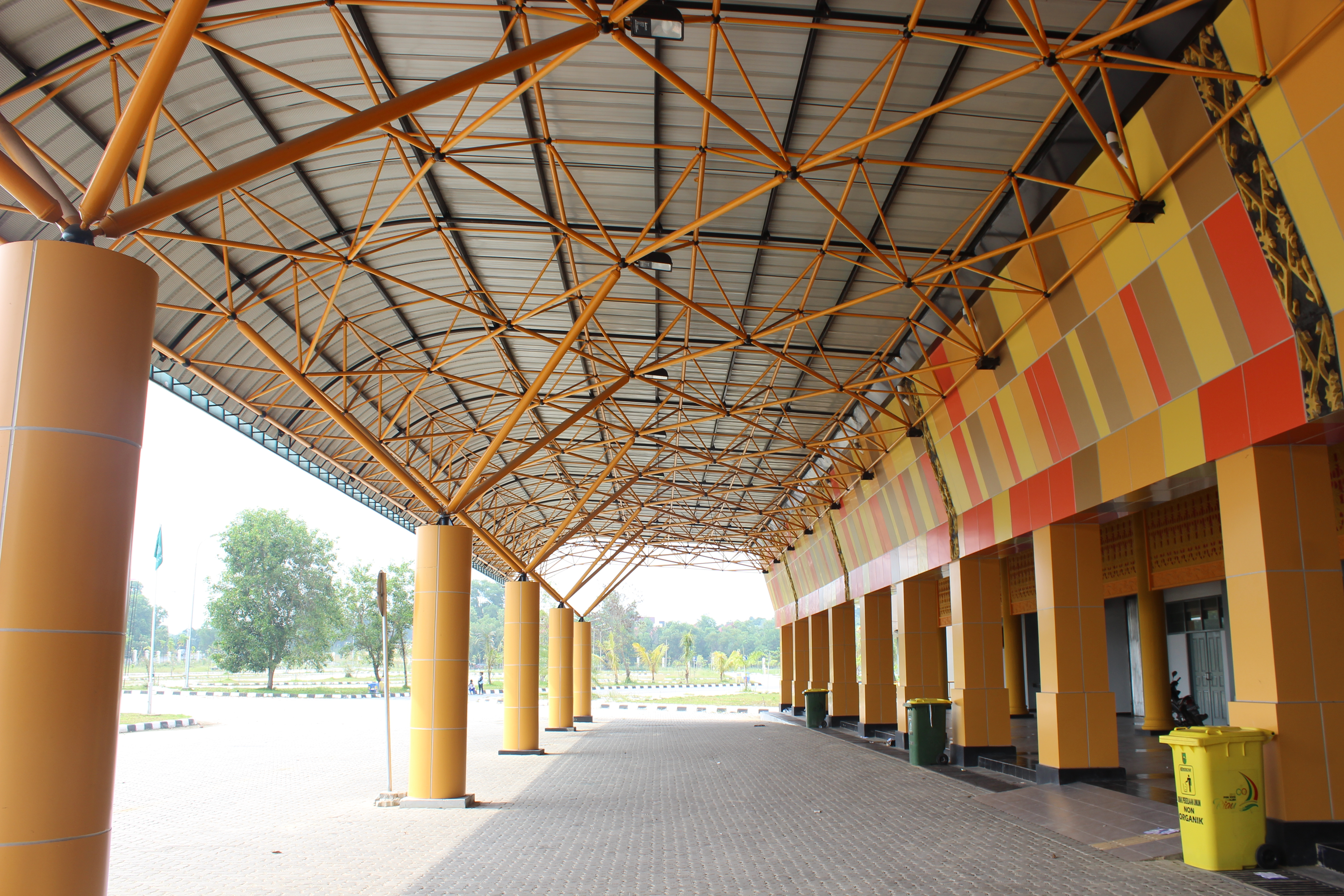 The front porch of Kaharuddin Nasution Stadium in Rumbai Sport Center, Pekanbaru, Riau.